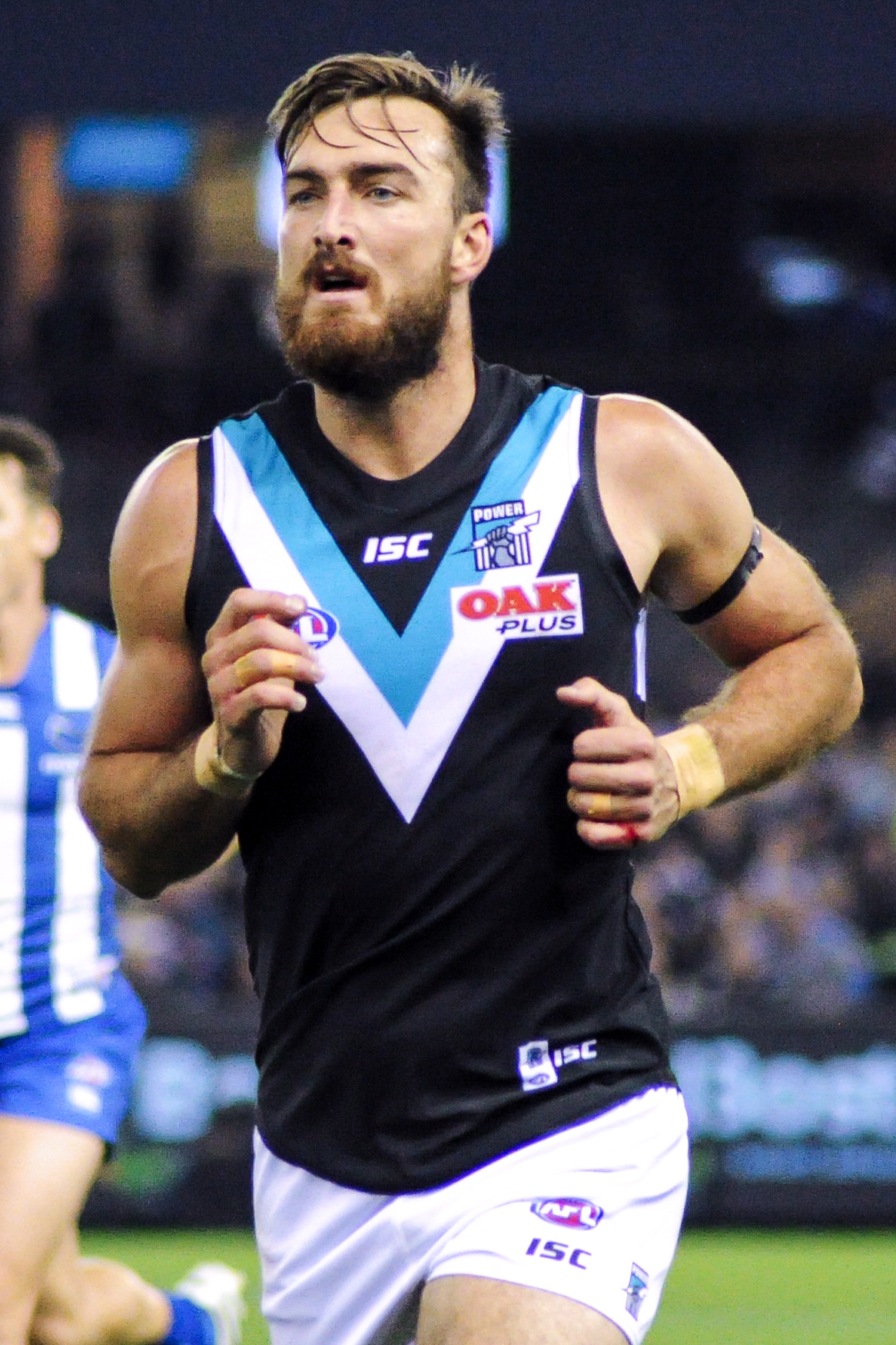 Charlie Dixon during the AFL round six match between North Melbourne and Port Adelaide on Saturday, 28 April 2018 at Etihad Stadium in Melbourne, Victoria.